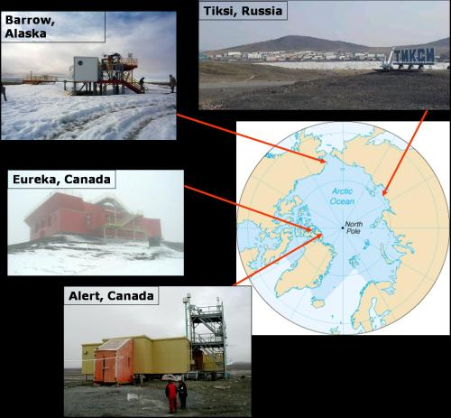 The National Oceanic Atmospheric Administration Arctic Atmospheric, Meteorological Service of Canada and Russian meteorological Service Observing Network